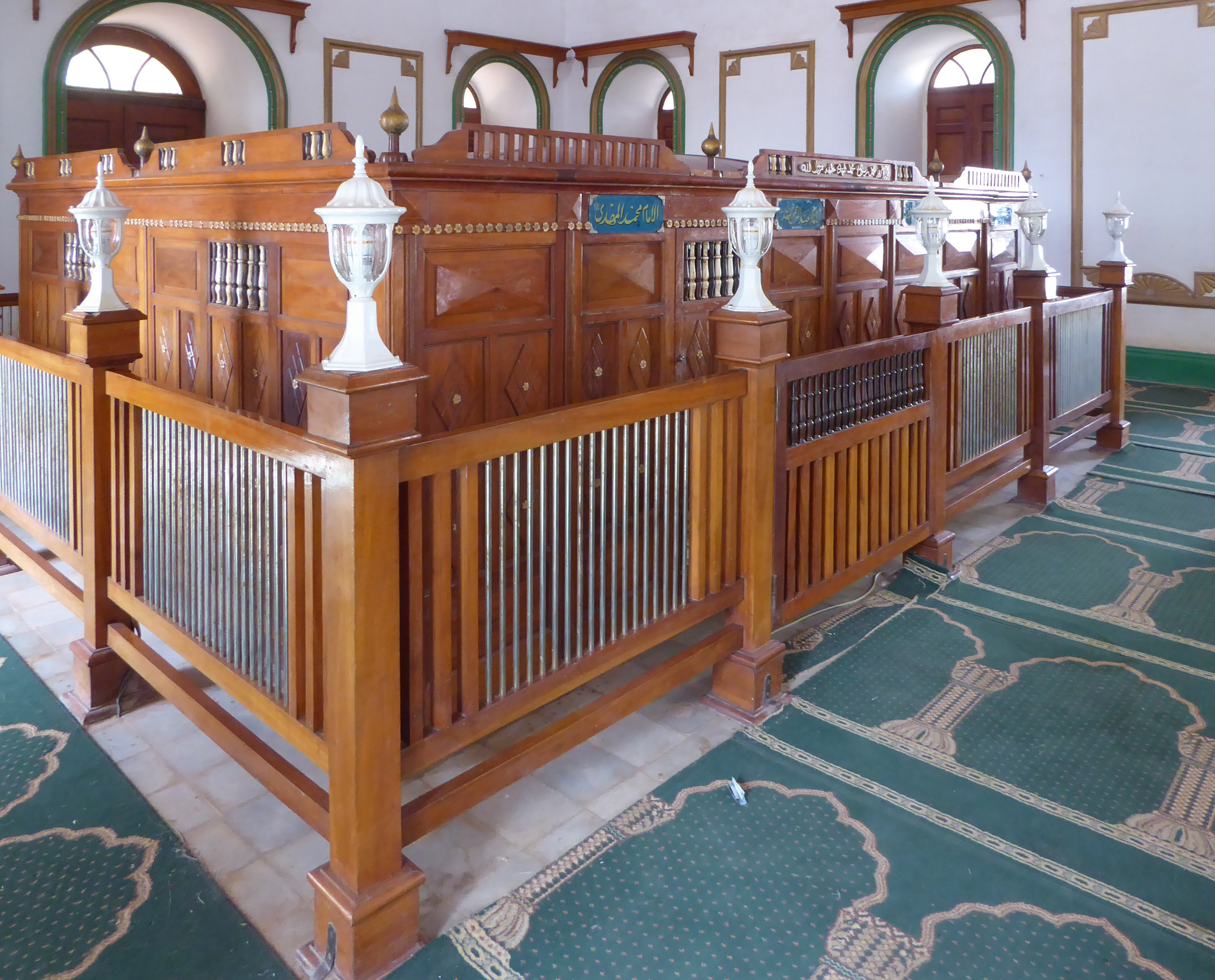 The Mahdi’s Tomb (3)